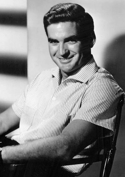 Publicity photo of Rod Taylor for Raintree County